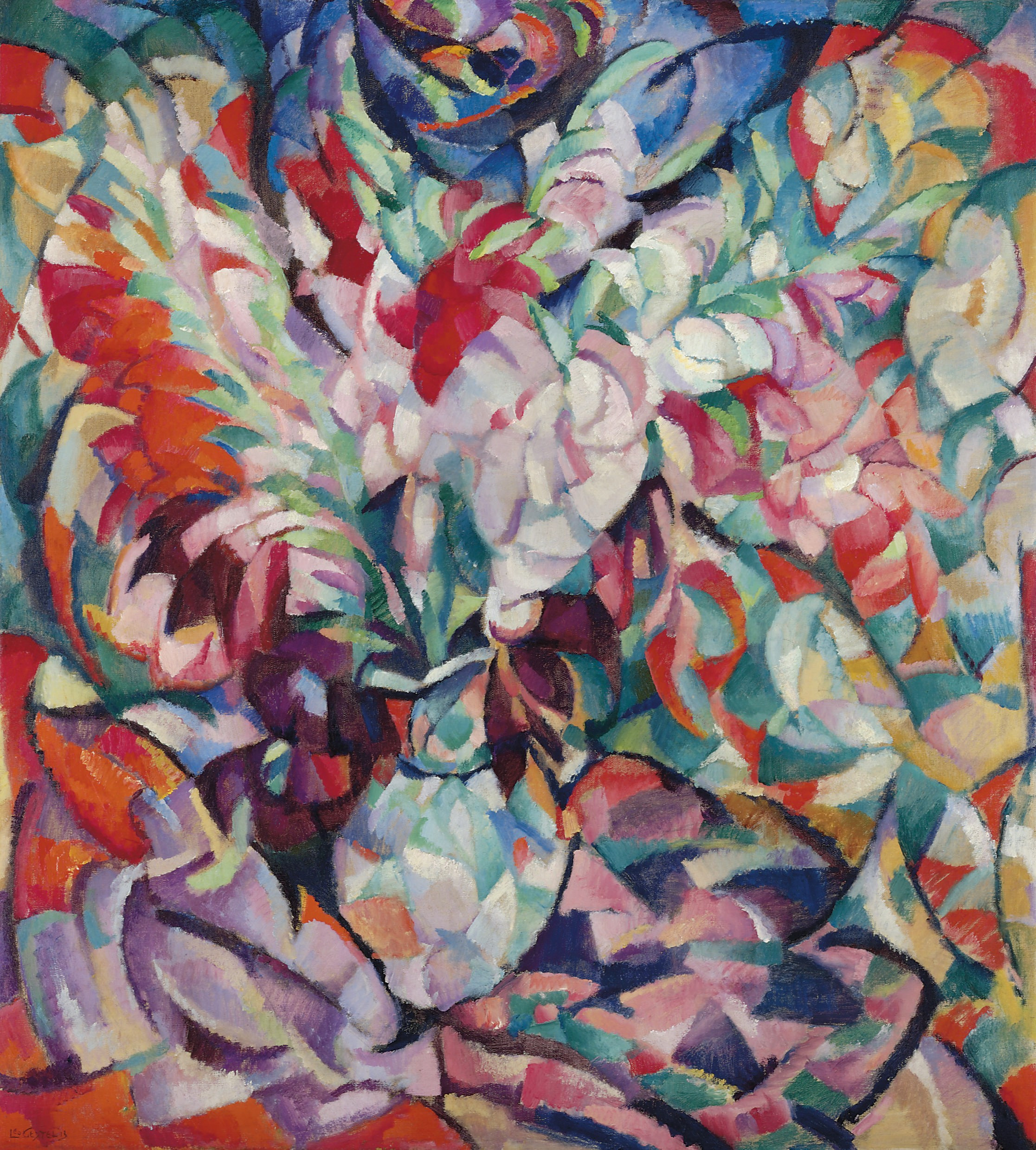 Gladiolen, signed and dated 'Leo Gestel 13', oil on canvas, 101.4 x 91.5 cm